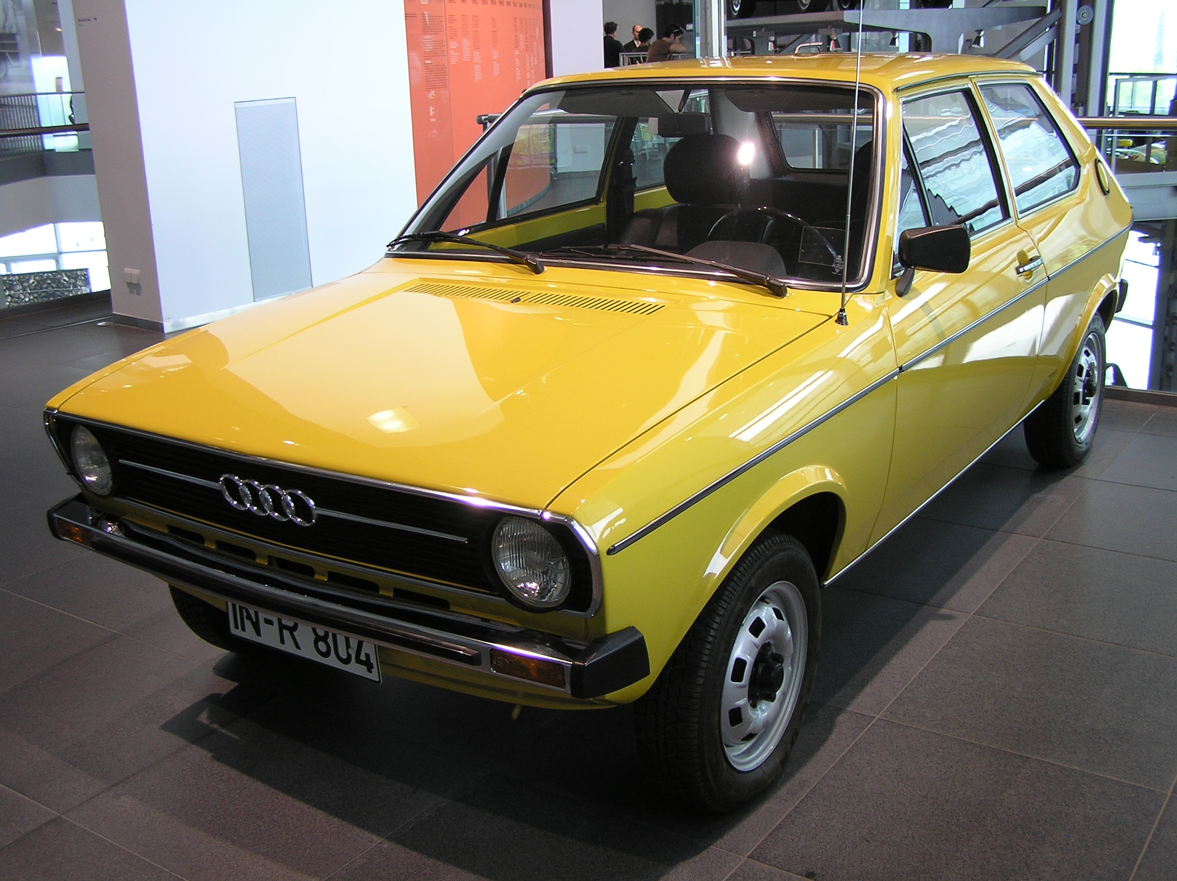 Audi 50 in the Audi Forum, Ingolstadt.